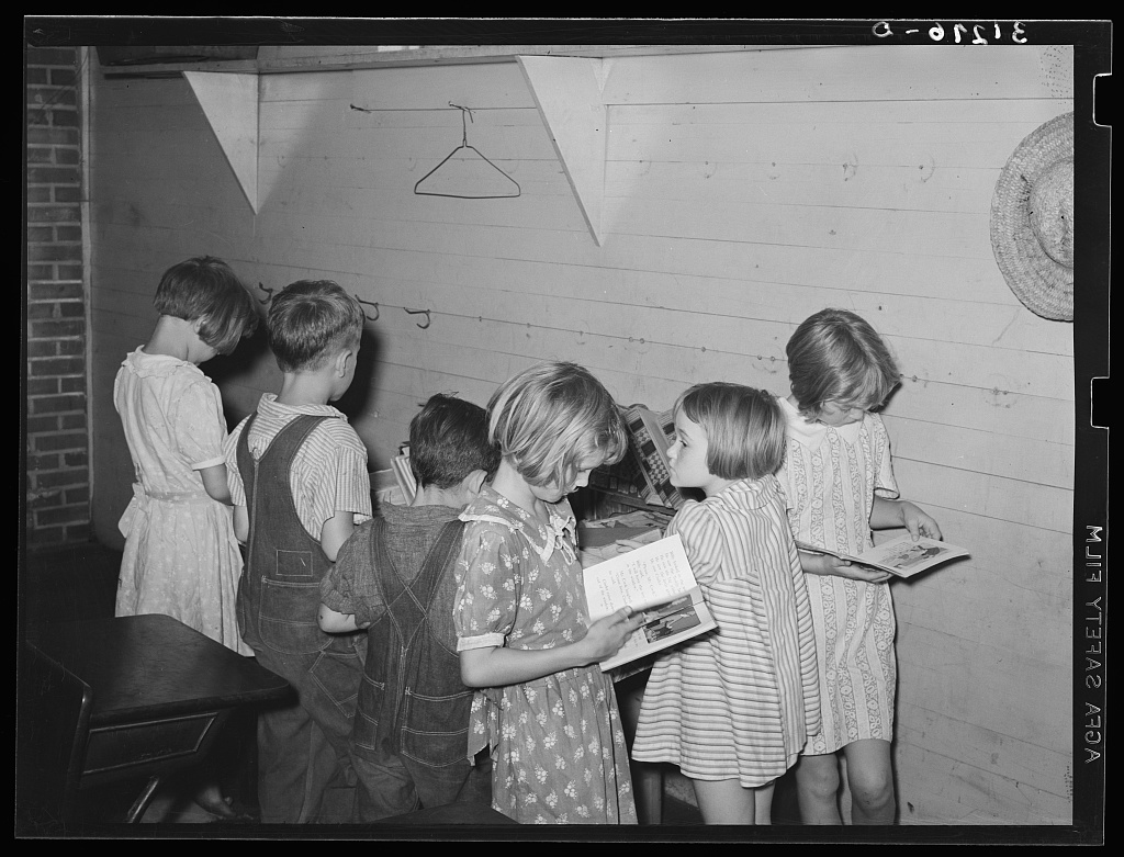 Children choosing books from the small school library near La Forge, Missouri. Southeast Missouri Farms school. Credit: Library of Congress, Prints & Photographs Division, FSA-OWI Collection, [reproduction number, e.g., LC-USF35-1326]